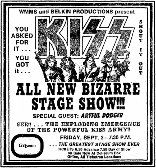 Print ad for Kiss rock concert